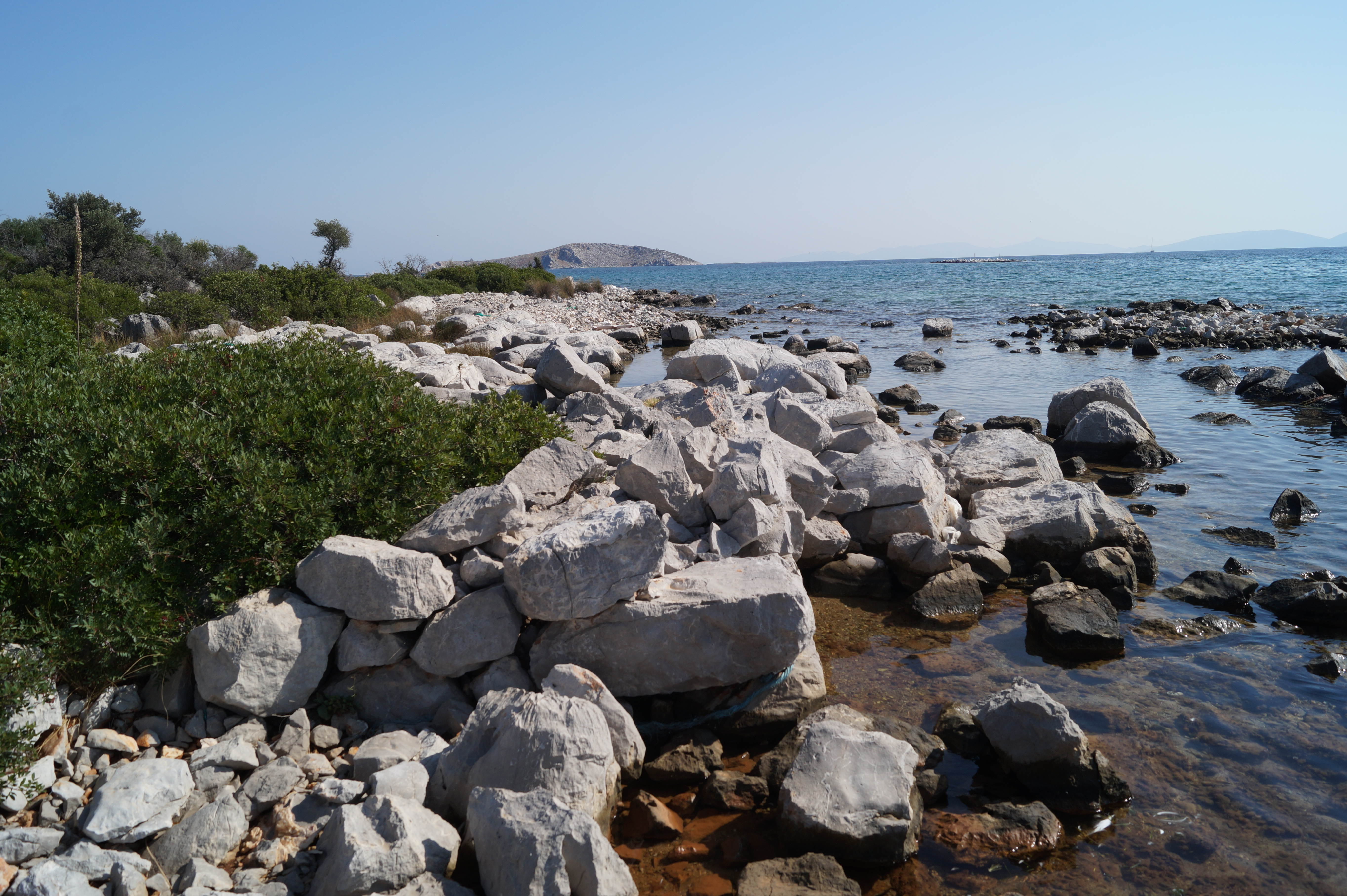 Korfos, Korinthia, Greece: Bronze age walls at the beach of Kalamianos.